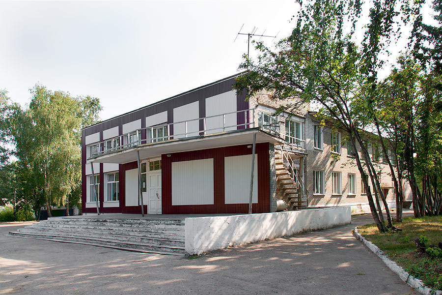 Sannikovo (Altai Krai). The House of Culture